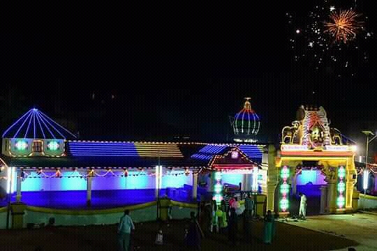 Shree Mahalakshmi Tremple, Uchhila, Durig festival